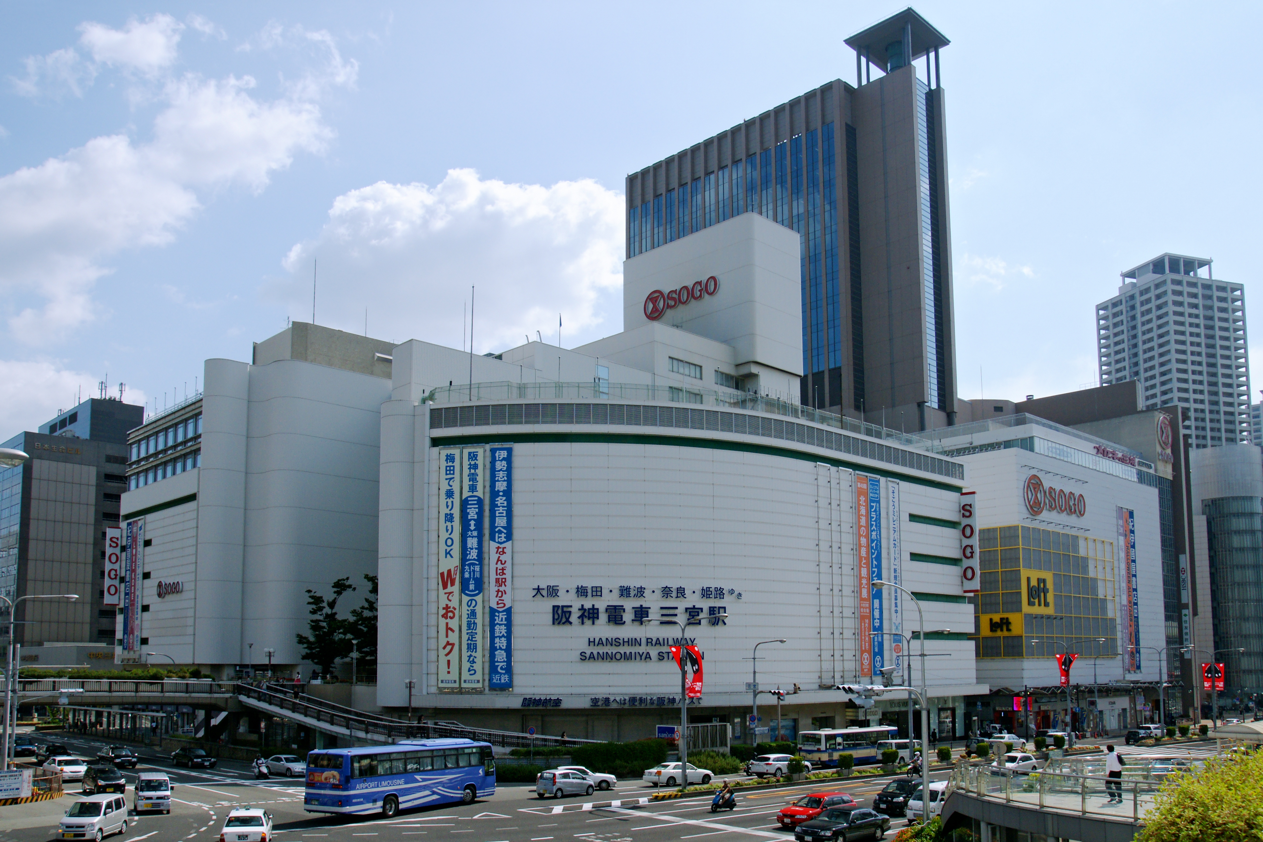 Sogo department store in Kobe, Hyogo prefecture, Japan